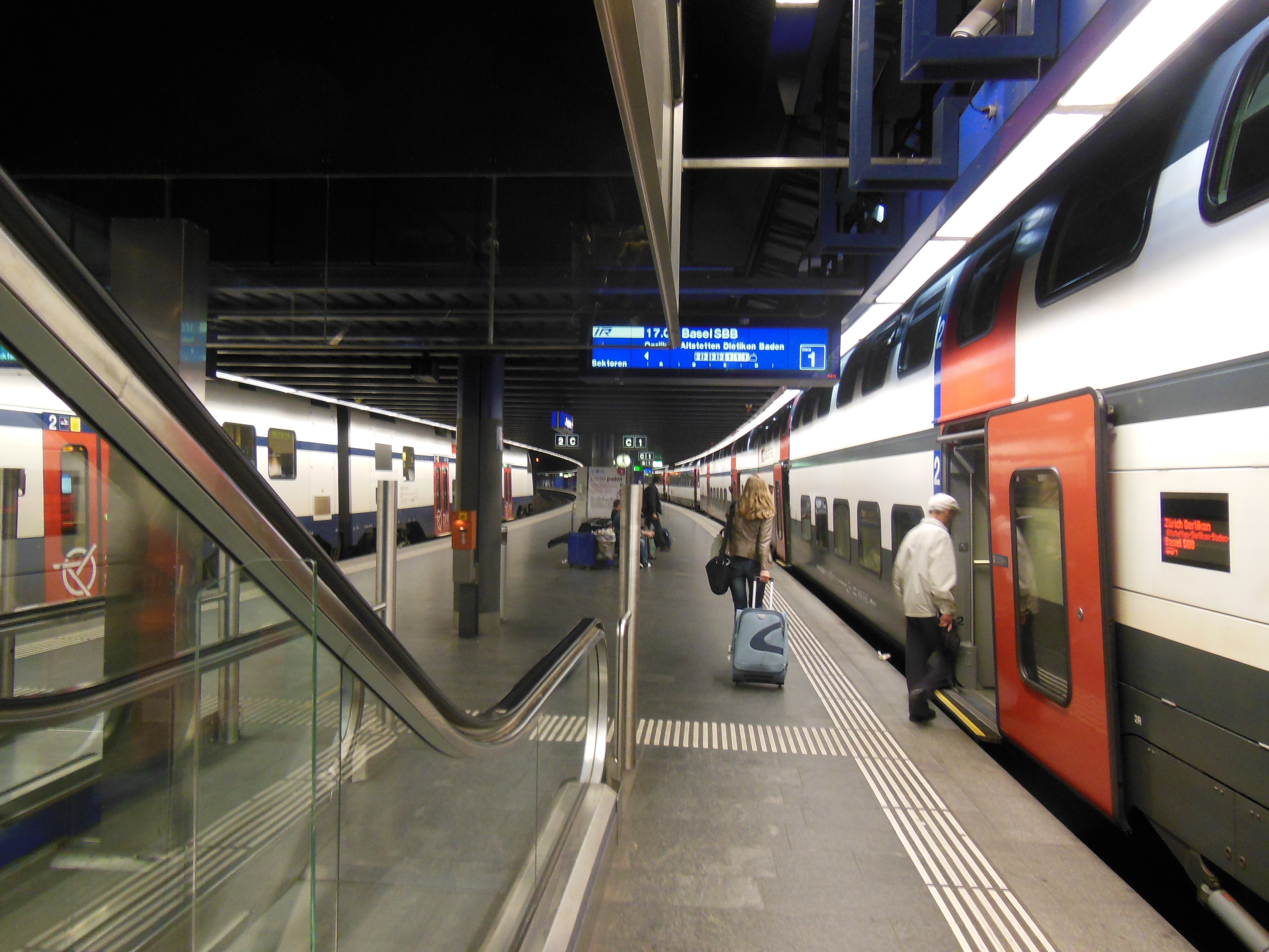 The underground platforms at Zurich Airport railway station, with double-deck S-Bahn (left) and InterRegio (right) trains. For more information, please see the Wikipedia article Zurich Airport railway station.